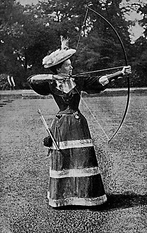 Photograph of the famous British archer Alice Legh.